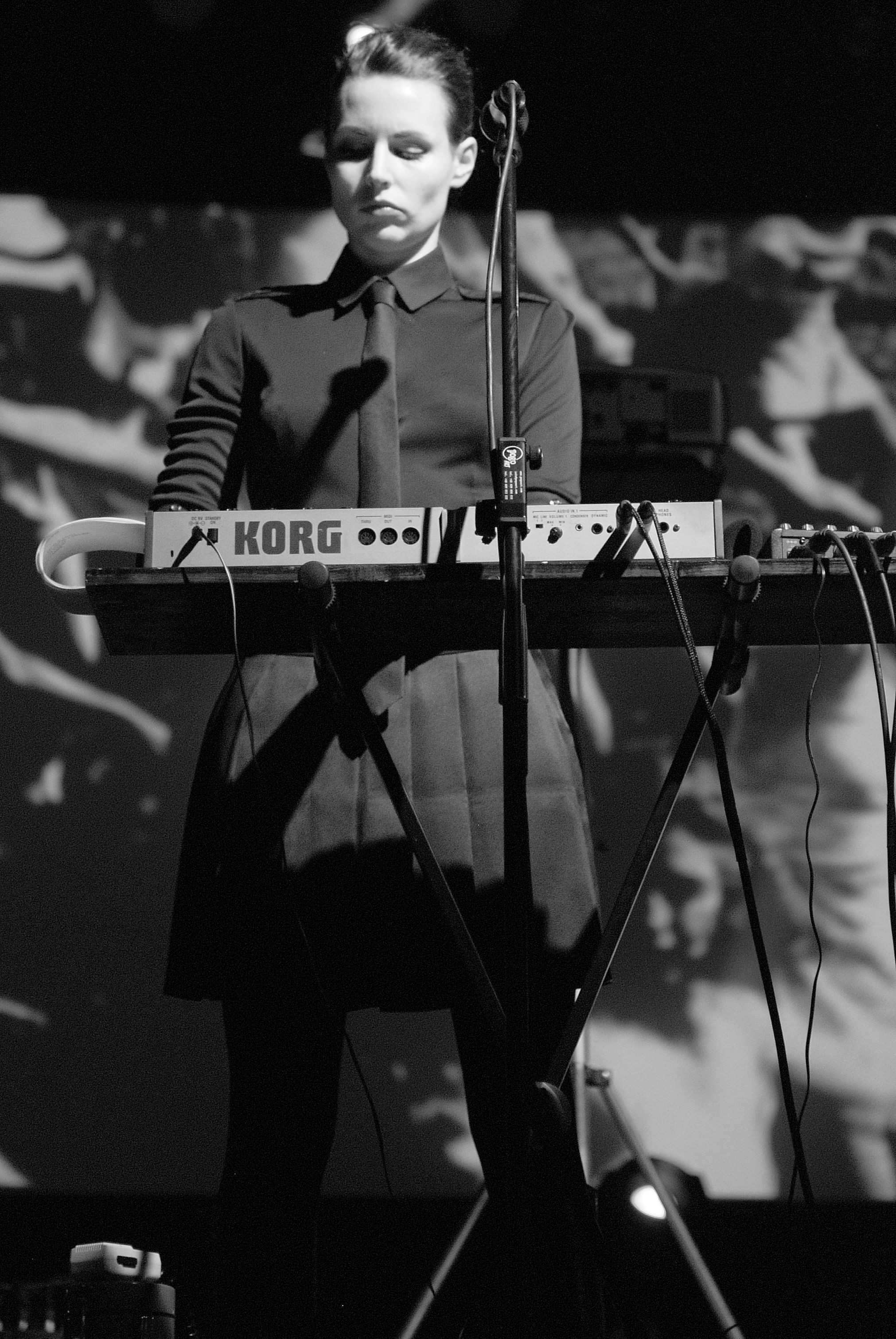 Taking of this photo was in cooperation with wRacku Festiwal